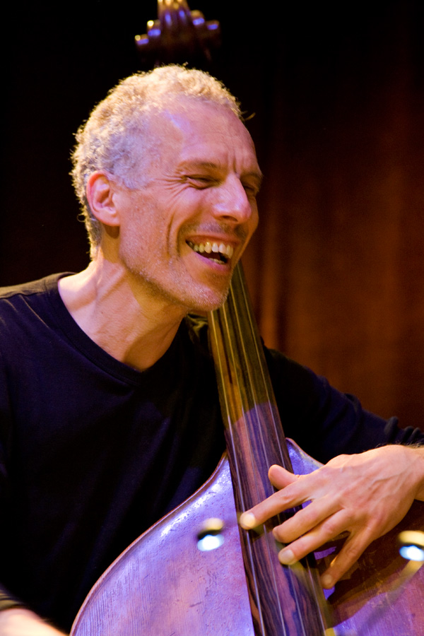 Achim Tang, moers festival 2011